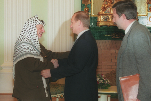 THE KREMLIN, MOSCOW. President Vladimir Putin with Palestinian National Authority leader Yasser Arafat.